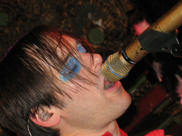 Kevin Barnes singing for of Montreal in San Francisco.